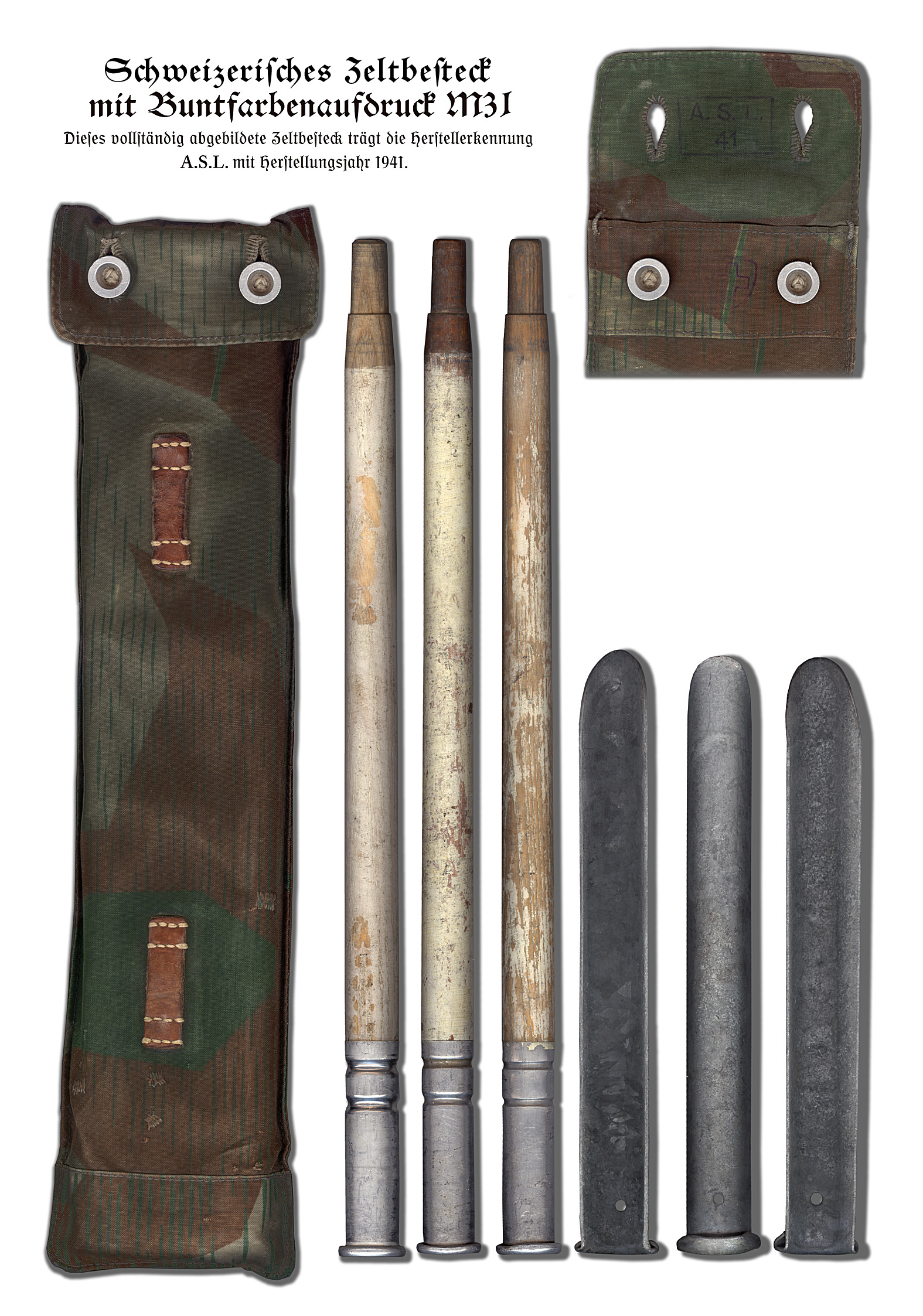 Swiss tent equipement, made by A.S.L., from 1941